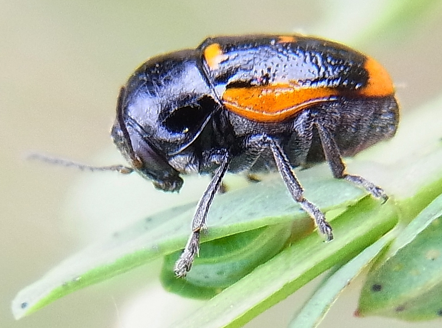 Cryptocephalus sexpustulatus near Manresa, Cataluña, Spain at 2013-06-21